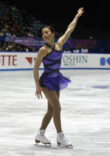 Laura Lepistö during her short program at the 2008 NHK Trophy.